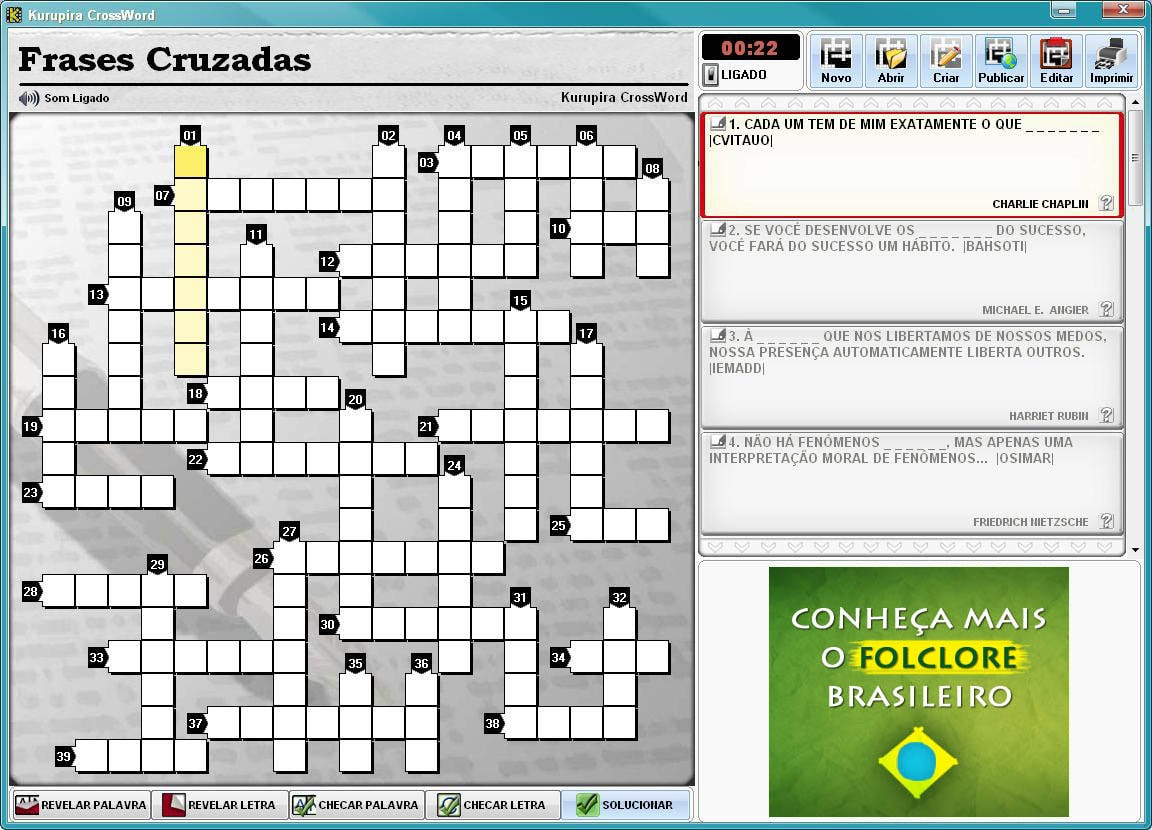 CrossPhrases is a new style of crossword themed where the clues are incomplete sentences of famous and anonymous authors. The player has to complete the cross-phrases.